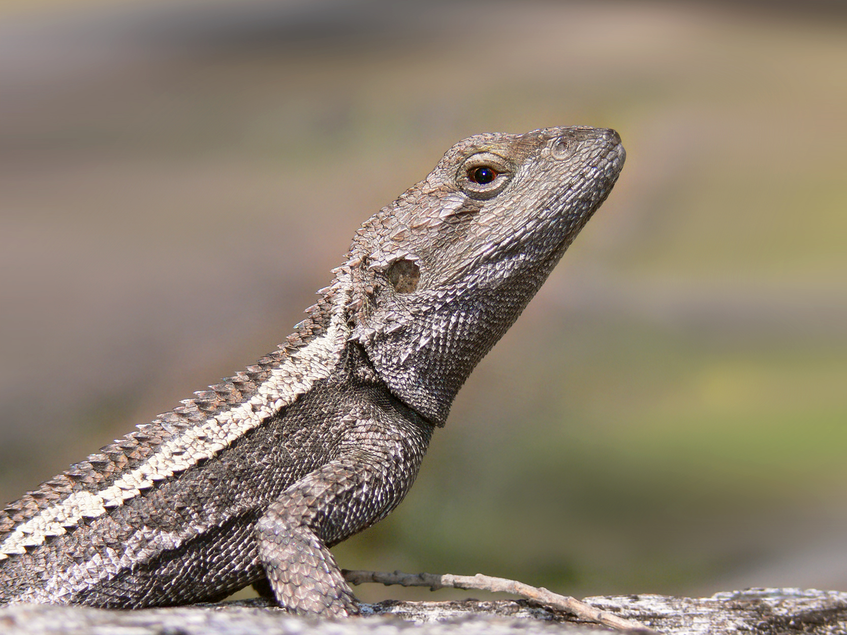 A Tree Dragon or Jacky lizard Amphibolurus muricatus , taken in South-eastern Australia.